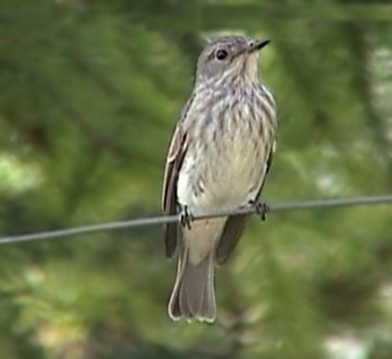 Сива мухоловка, Варна, България, 2003